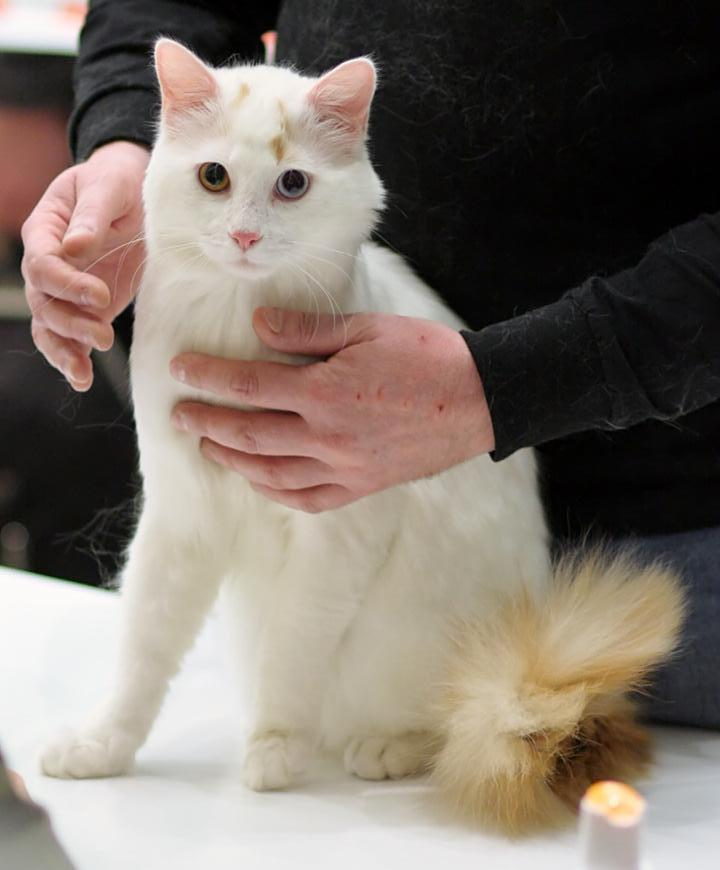 Turkish Van cat